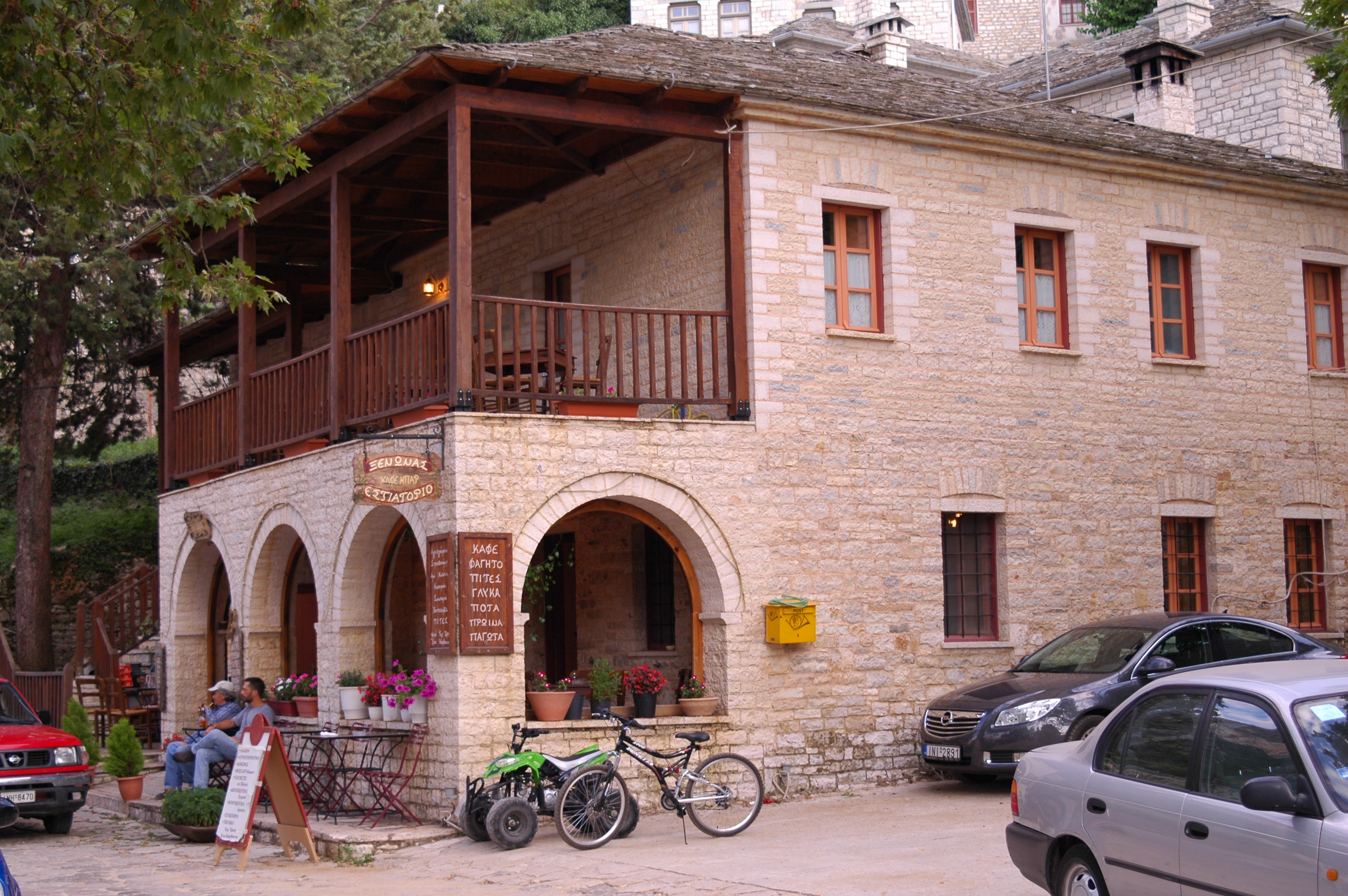 Aristi main street